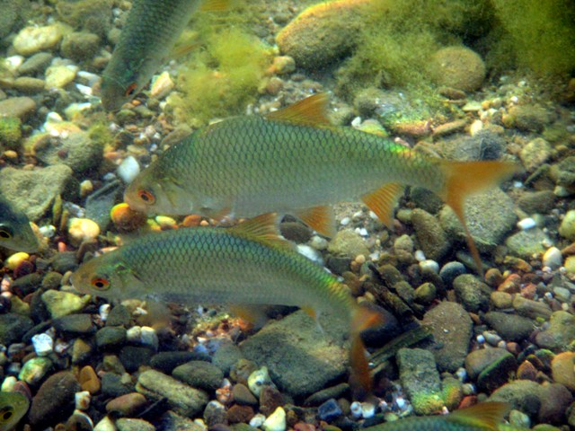 Roach (Rutilus rutilus).